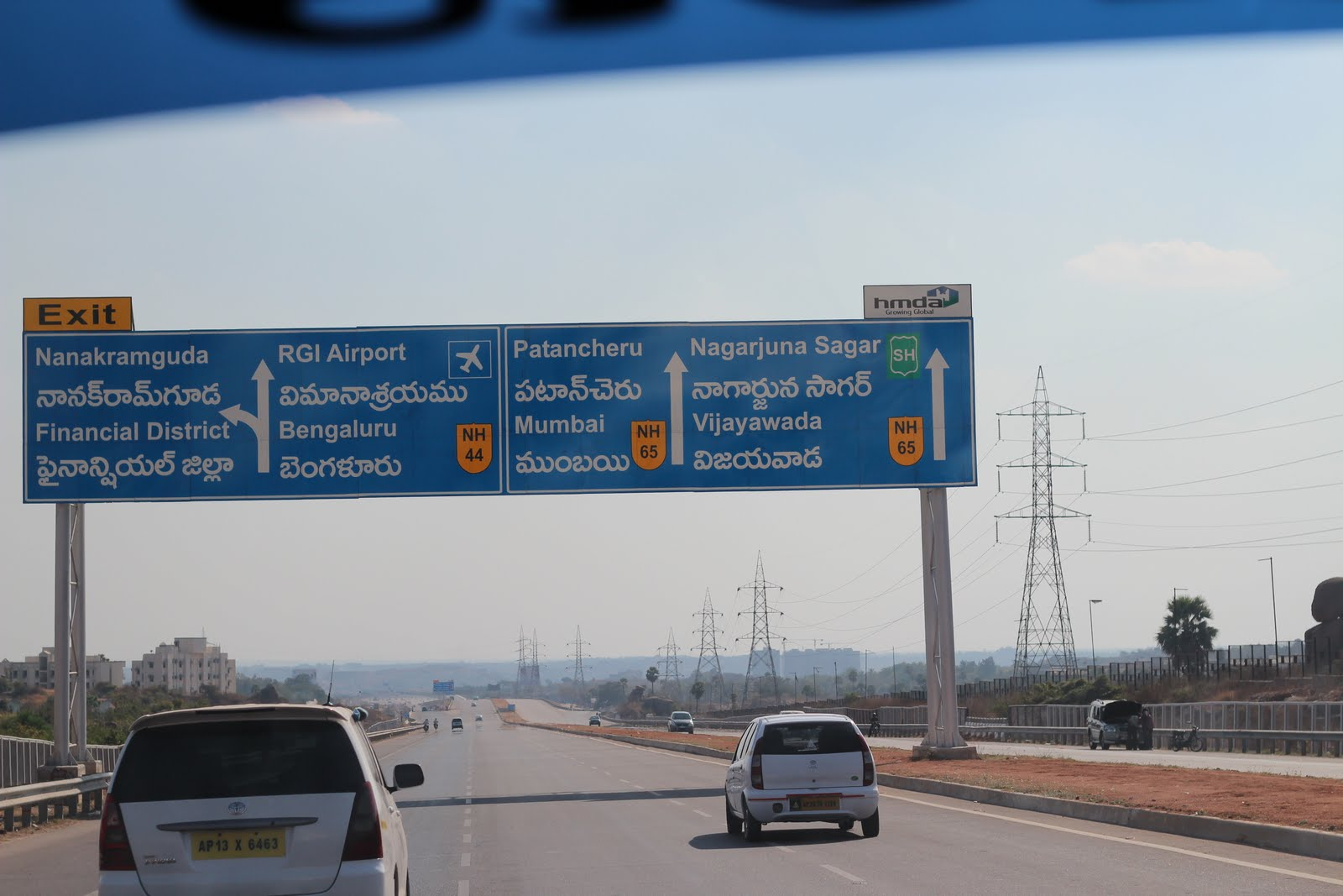 A glimpse of the Nehru ORR going from Gachibowli towards Shamshabad, showing directions to Bangalore Highway